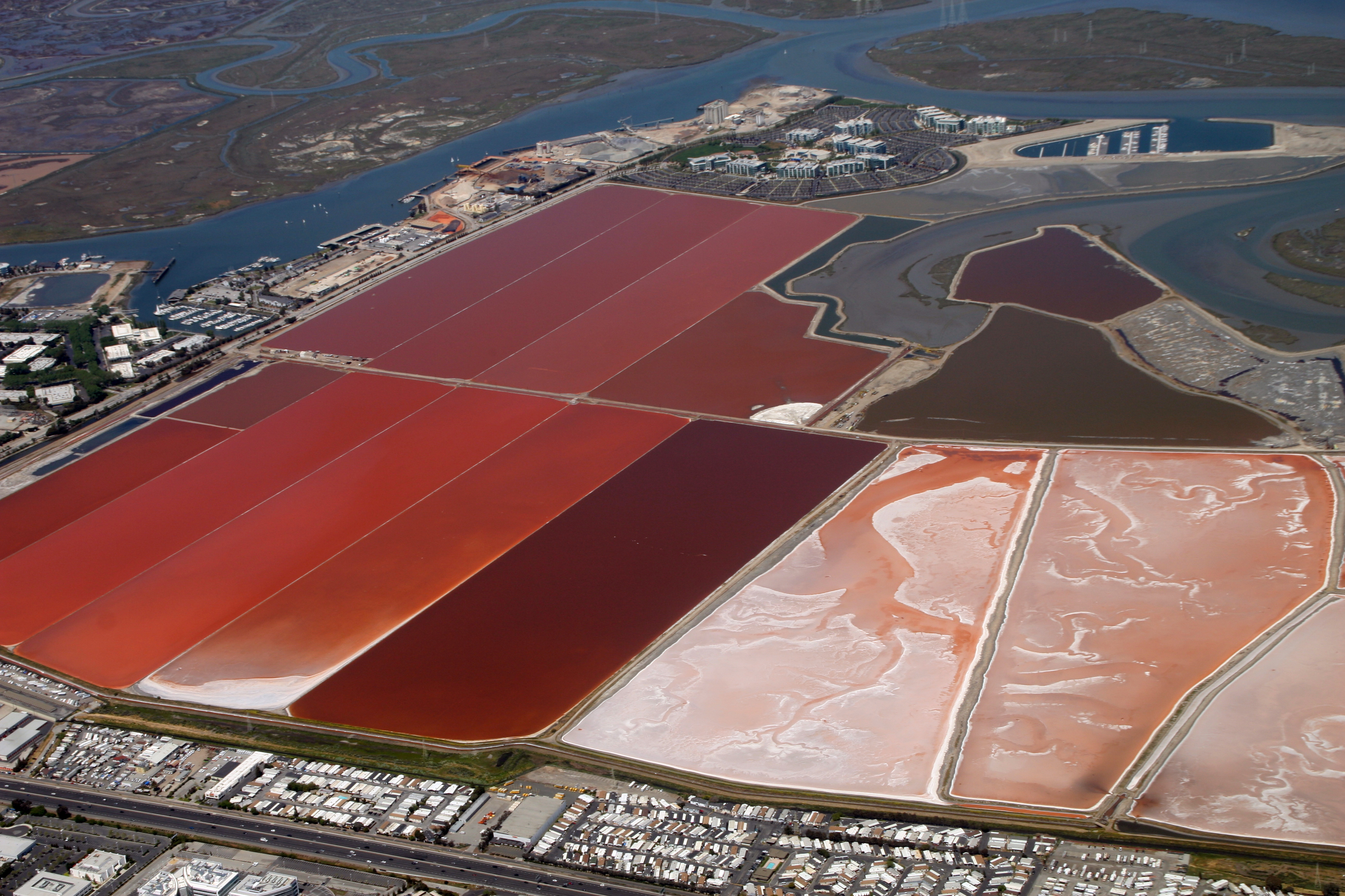 Salt evaporation ponds formed by salt water impounded within levees in former tidelands on the western shore of San Francisco Bay, in Redwood City. There are many of these ponds surrounding the South Bay. As the water evaporates, micro-organisms of several kinds come to predominate and change the color of the water. First come green and red algae, then orange brine shrimp. Other organisms can also change the hue of each pond. Finally, when the water is evaporated, the white of salt alone remains. This is harvested with machines, and the process repeats.